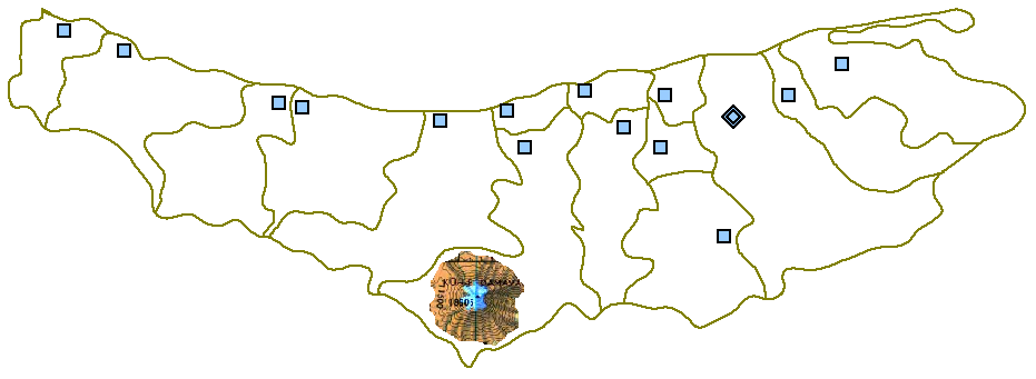 Map of Māzandarān Province showing the location of Mount Damāvand in the south of Amol County.